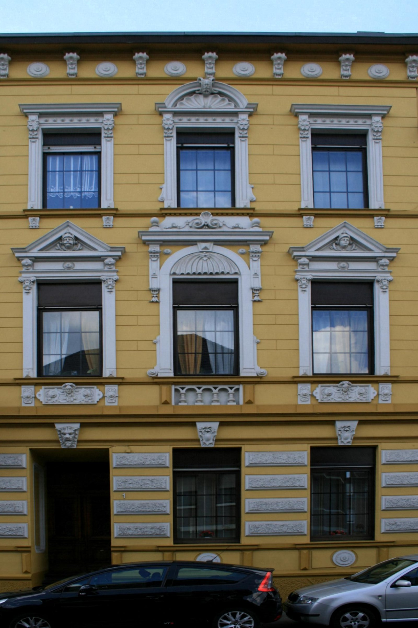 Cultural heritage monument No. E 011 in Mönchengladbach